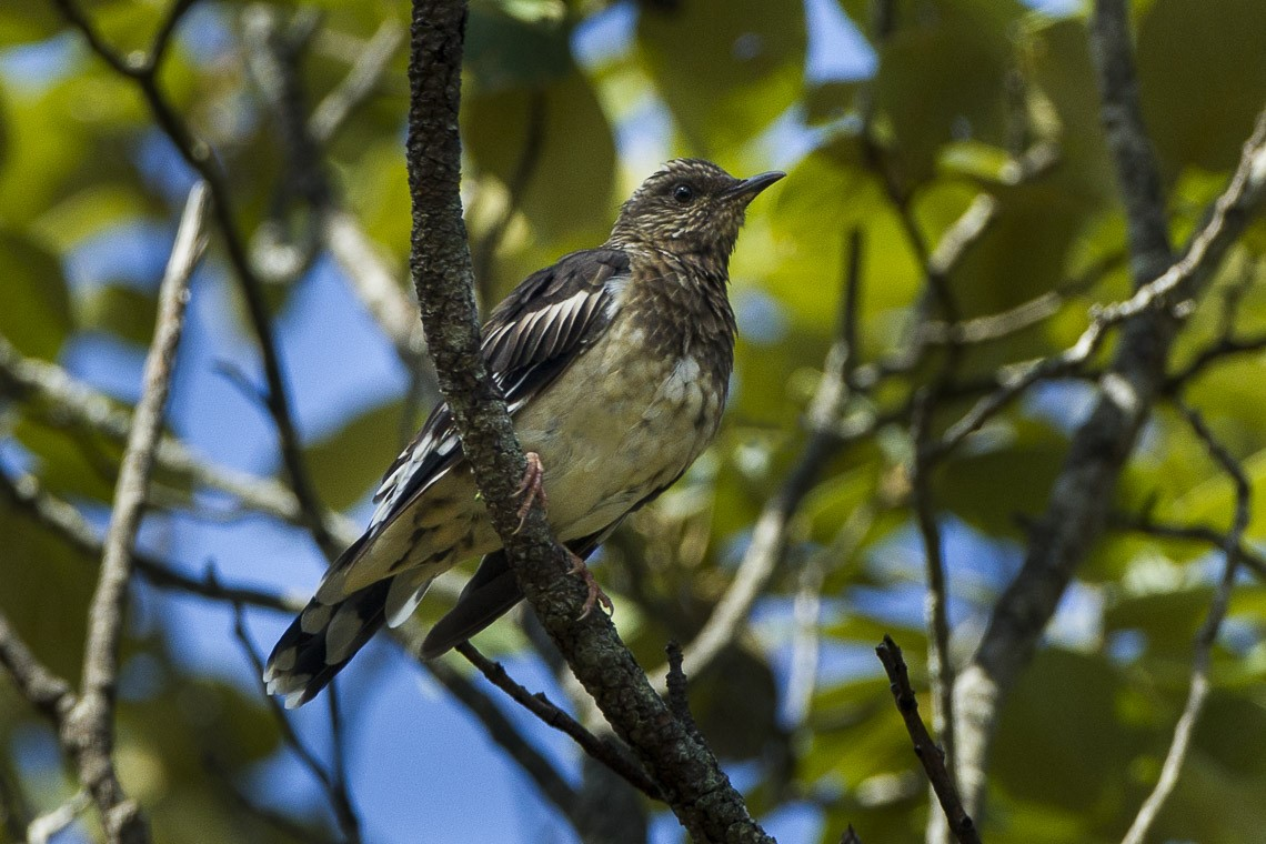 Aztec Thrush fem - Mexico_S4E0913